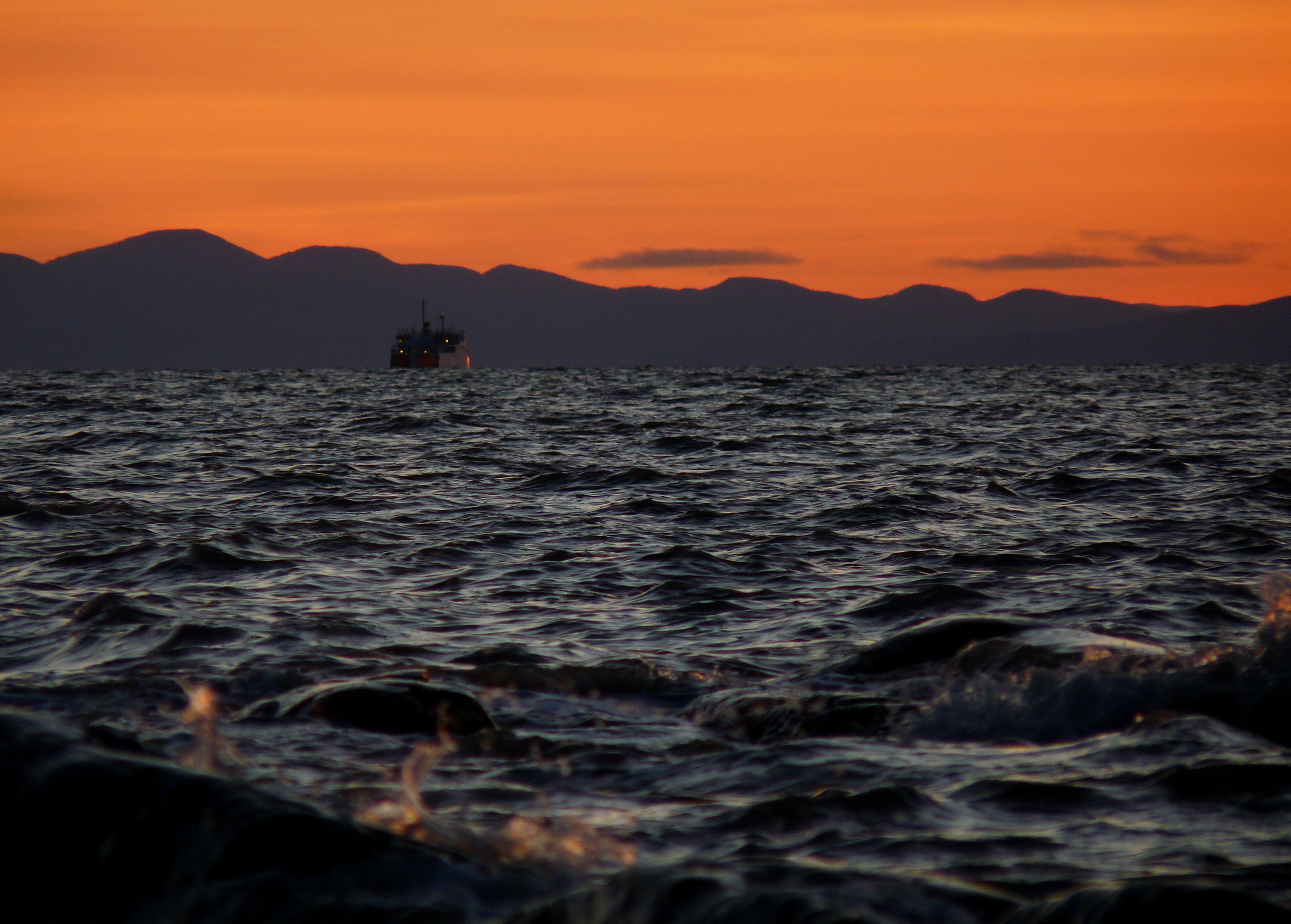 Vue du traversier sur fleuve Saint-Laurent entre Rivière-du-Loup et Saint-Siméon au Québec (Canada) au soleil couchant, à partir du parc de la pointe à Rivière-du-Loup